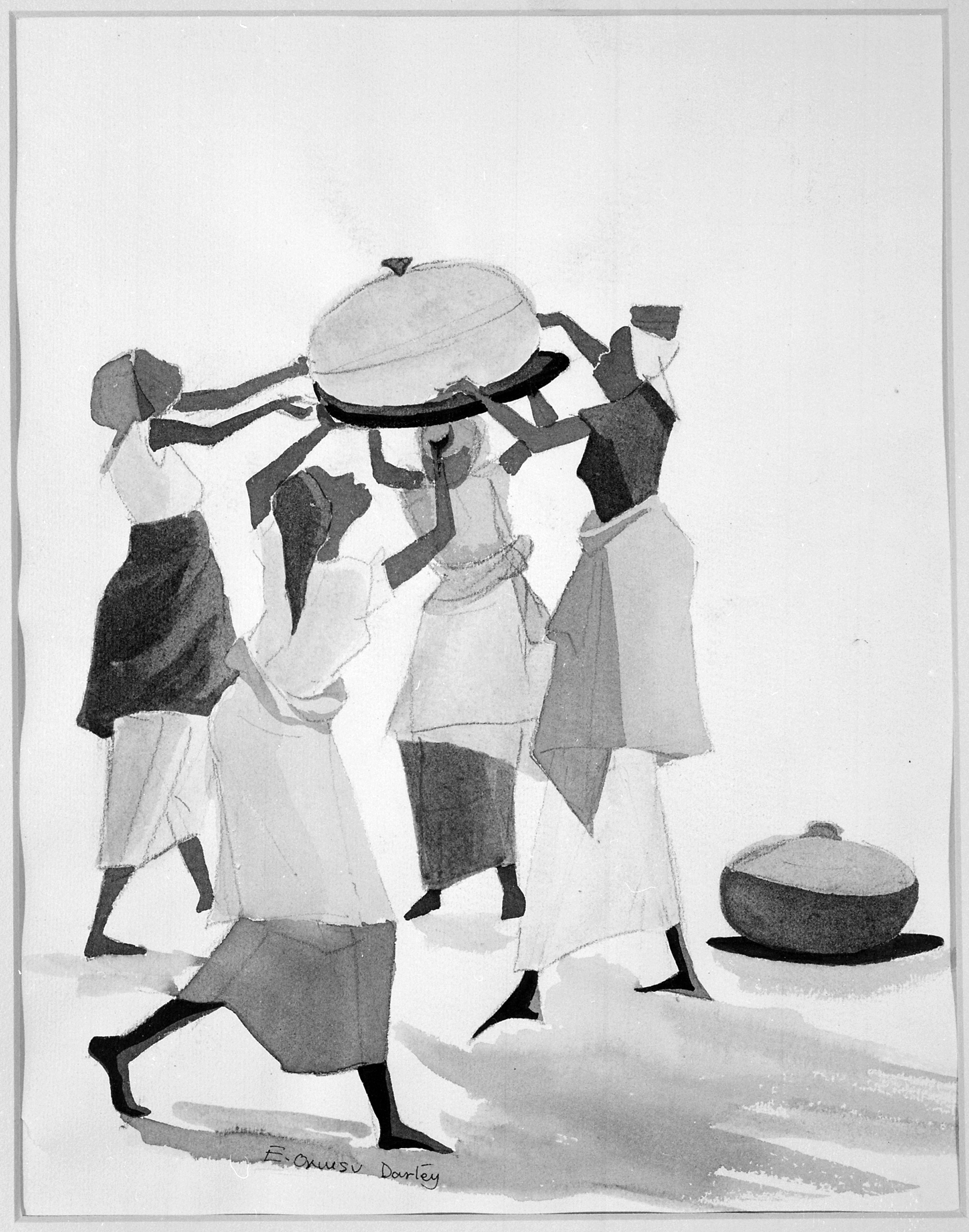 General notes: Watercolor